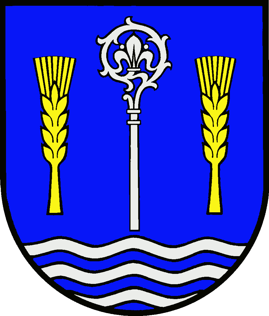 Coat of arms of the municipality Münsterdorf in Schleswig-Holstein, Germany.